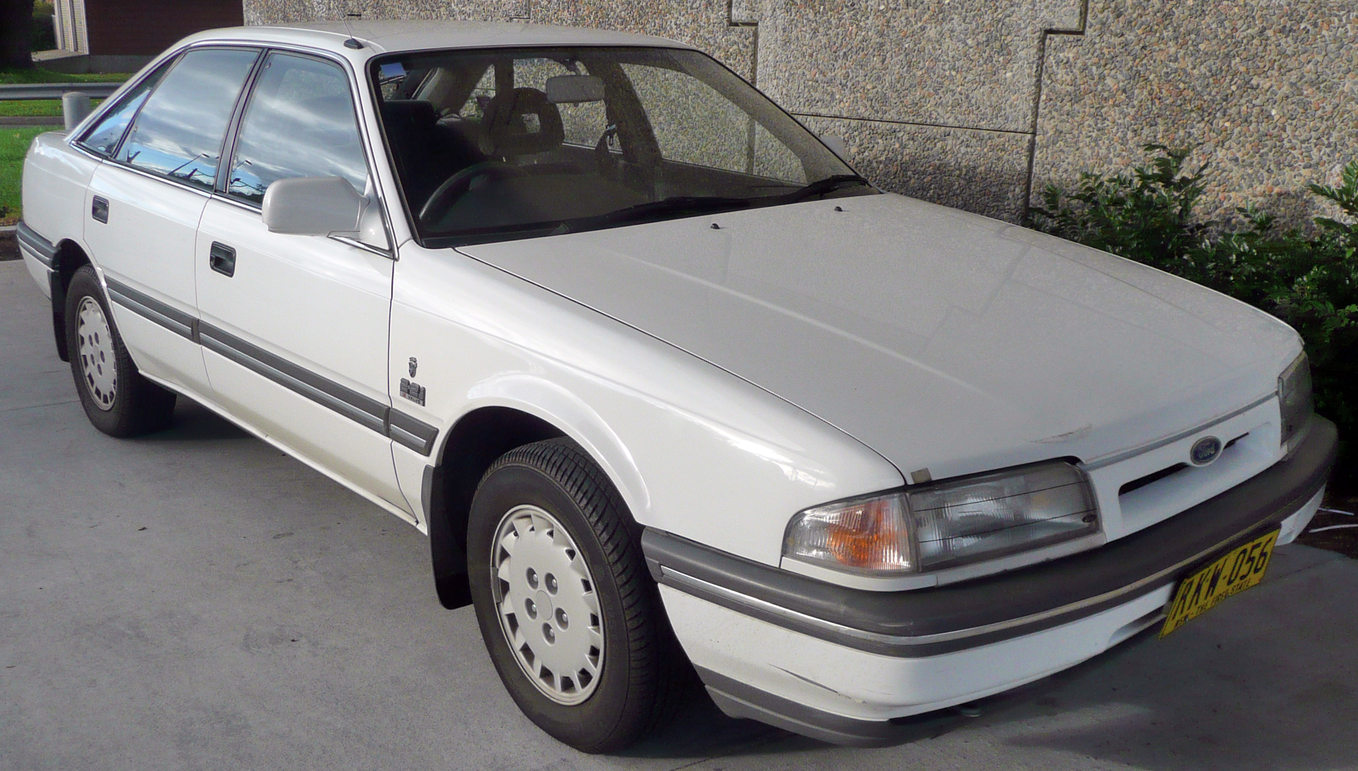 1990 Ford Telstar TX5 (AV) Ghia hatchback. Photographed in Sutherland, New South Wales, Australia.